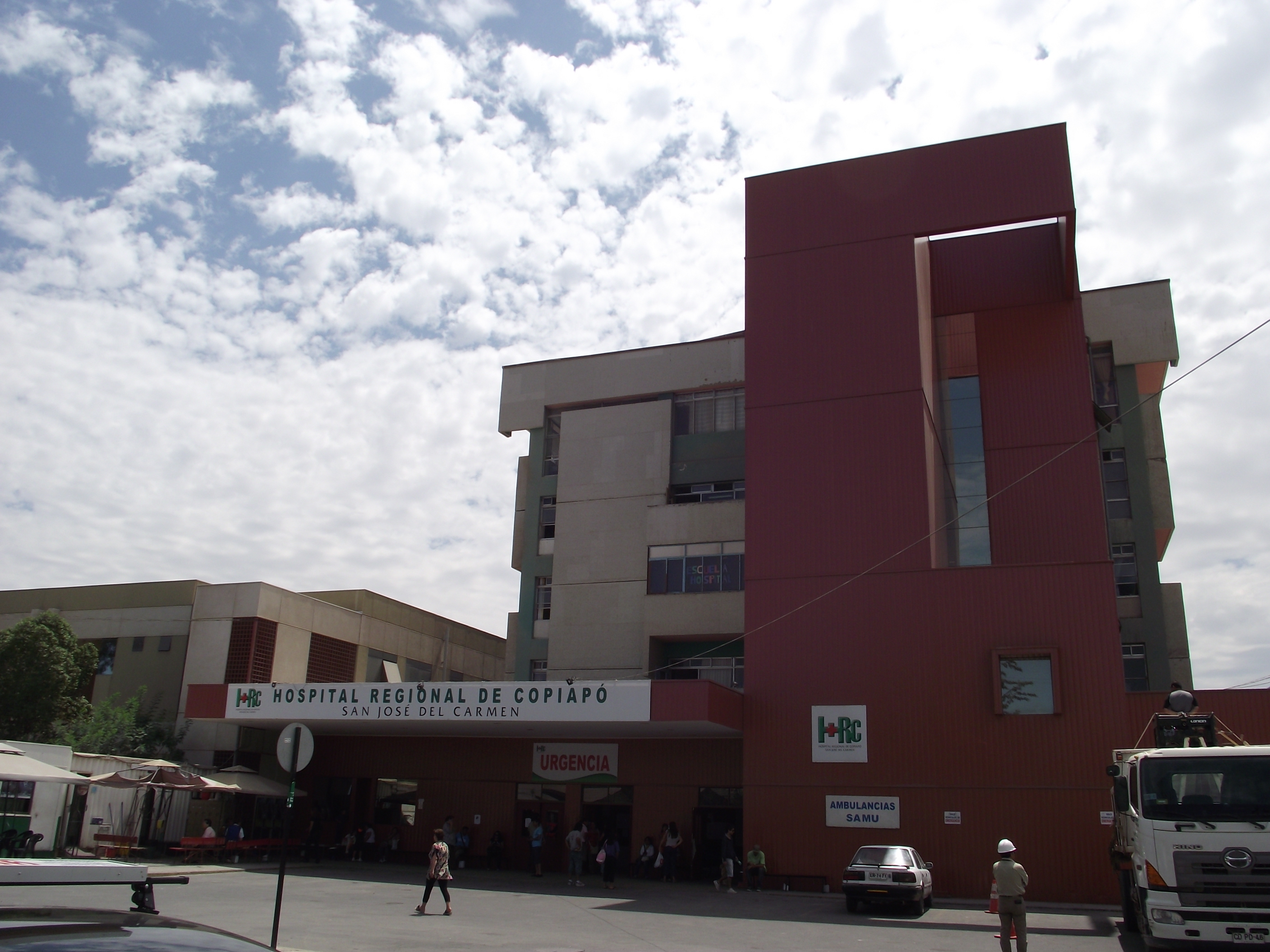 Regional Hospital of Copiapó.